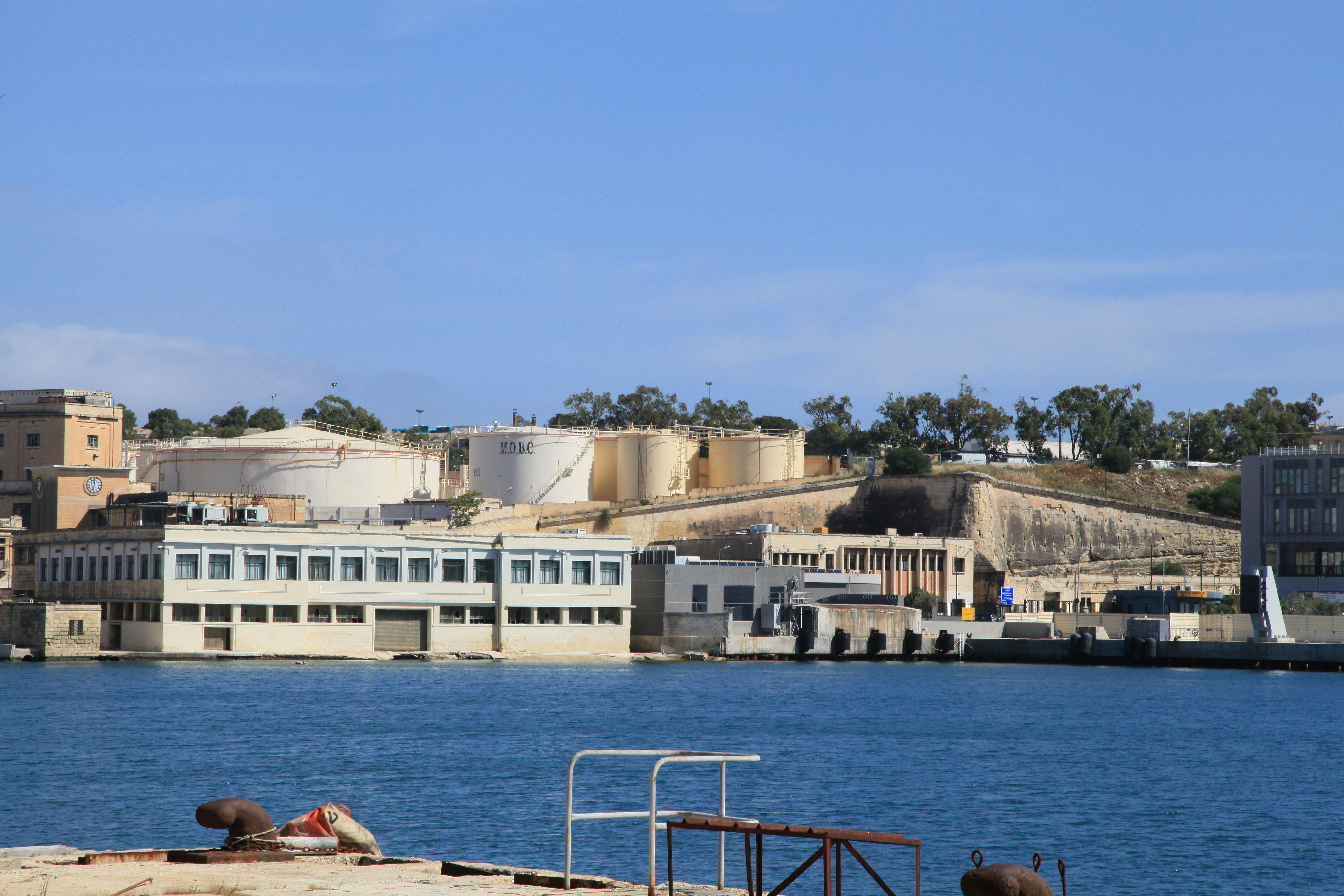 View from Il-Moll tal-Pont in Marsa (Malta) to Triq l-Għassara tal-Għeneb and It-Telgha ta' Spencer in Floriana, Malta